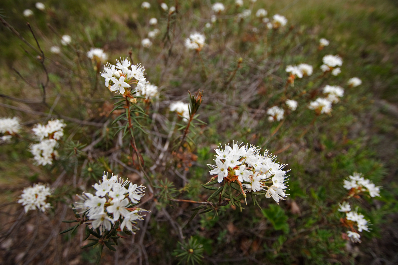 Marsh Labrador Tea (Rhododendron tomentosum) See where this picture was taken. ?